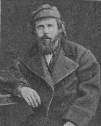 Rabbi Beinush Salant Z"L